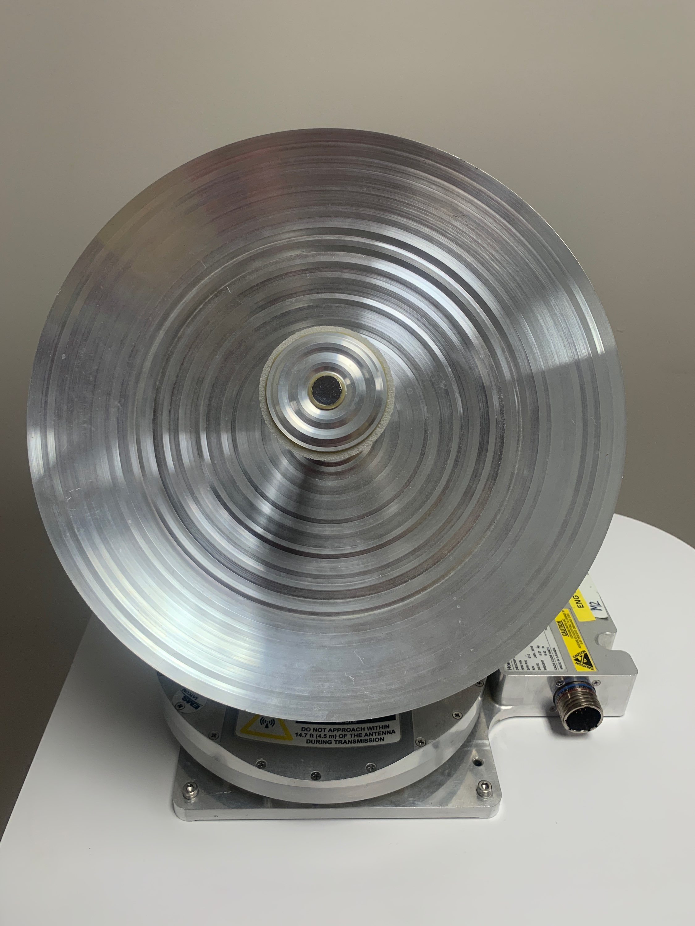 Honeywell’s JetWave satellite communications terminals enable global consistent connectivity via Inmarsat Aviation’s Global Xpress (GX) Ka-band network.